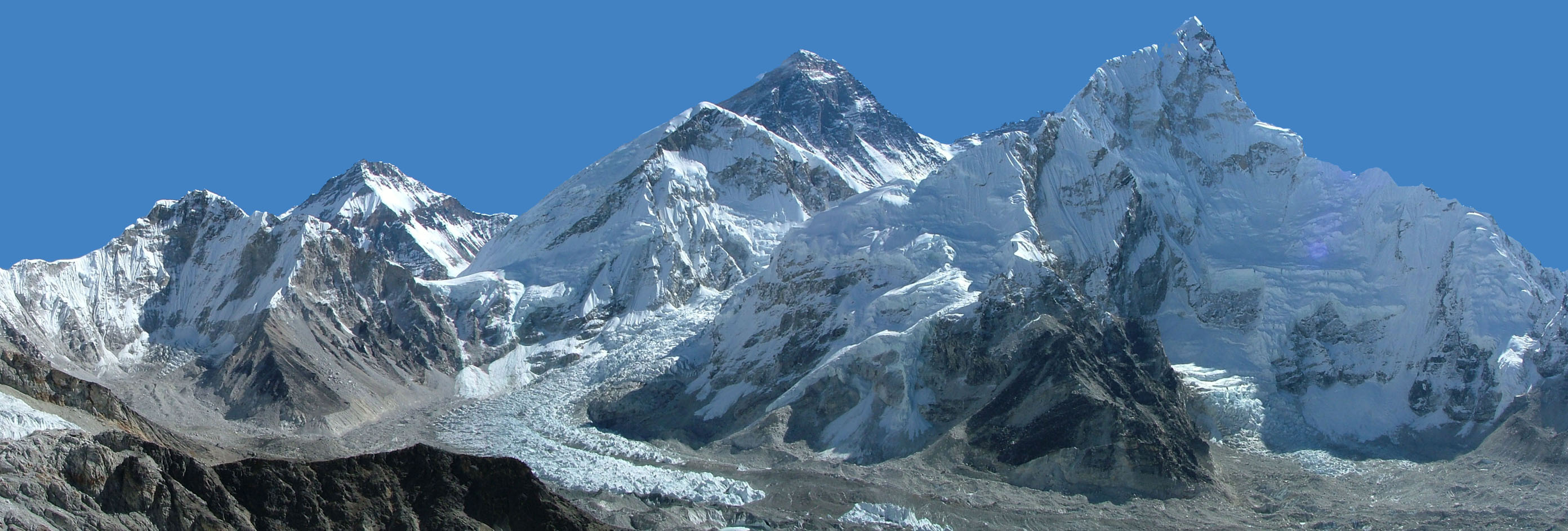 Vue du Mont Everest (8850 m pyramide sombre au centre) et du Nuptse (7879 m, sommet en avant plan, à droite). Sur le flanc droit de l'Everest s'amorce le col Sud (7906 m, qui grimpe vers le Lhotse (sommet non visible sur la photo, masqué par le Nuptse). Le grand glacier qui descend de l'Everest est l'Ice Fall. Photo prise par moi-même en Octobre 2005, depuis le sommet du Kala Patthar (5545 m). Auteur : Lerian Source : Wikipédia francophone [1] Licence précisée sur Wikipédia francophone : Domaine Public View of Mount Everest (8850m -- dark pyramid in the center) and of Nuptse (7879m, the summit on the right). On the right side of Everest is the South Col (7906m), which links Everest with Lhotse (not visible, blocked by Nuptse). The large mass of broken ice arcing through the center foreground is the Khumbu Glacier. The valley through which it descends is the Western Cwm. The area below the Glacier is where Everest expeditions traveling via the Southeast Ridge establish their Base Camps. Photo shot by the uploader in October 2005, after summiting Kala Patthar (5545 m).